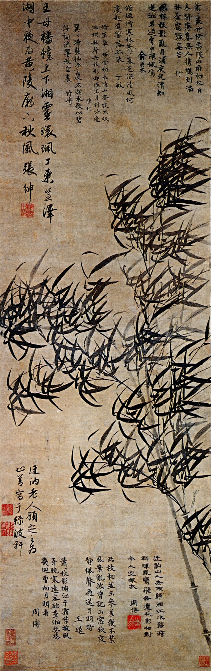 Bamboo in the Wind, hanging scroll, ink on silk, 106 x 33.5 cm. Located at the Shanxi Provincial Museum.